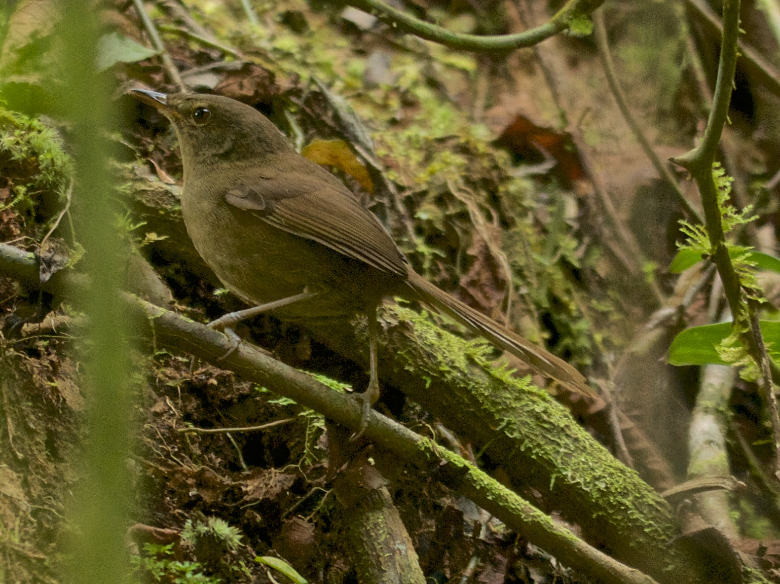 Madagascar brush warbler in Analamazaotra Special Reserve